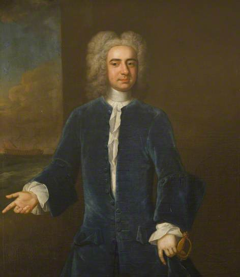 Portrait of Admiral Thomas Davers